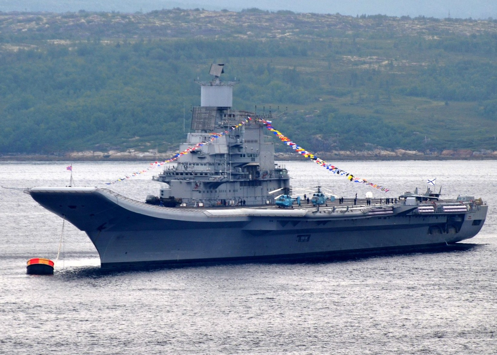 Лёгкий авианосец «Викрамадитья» на параде кораблей Северного флота ВМФ России в Североморске. День ВМФ России 2012.